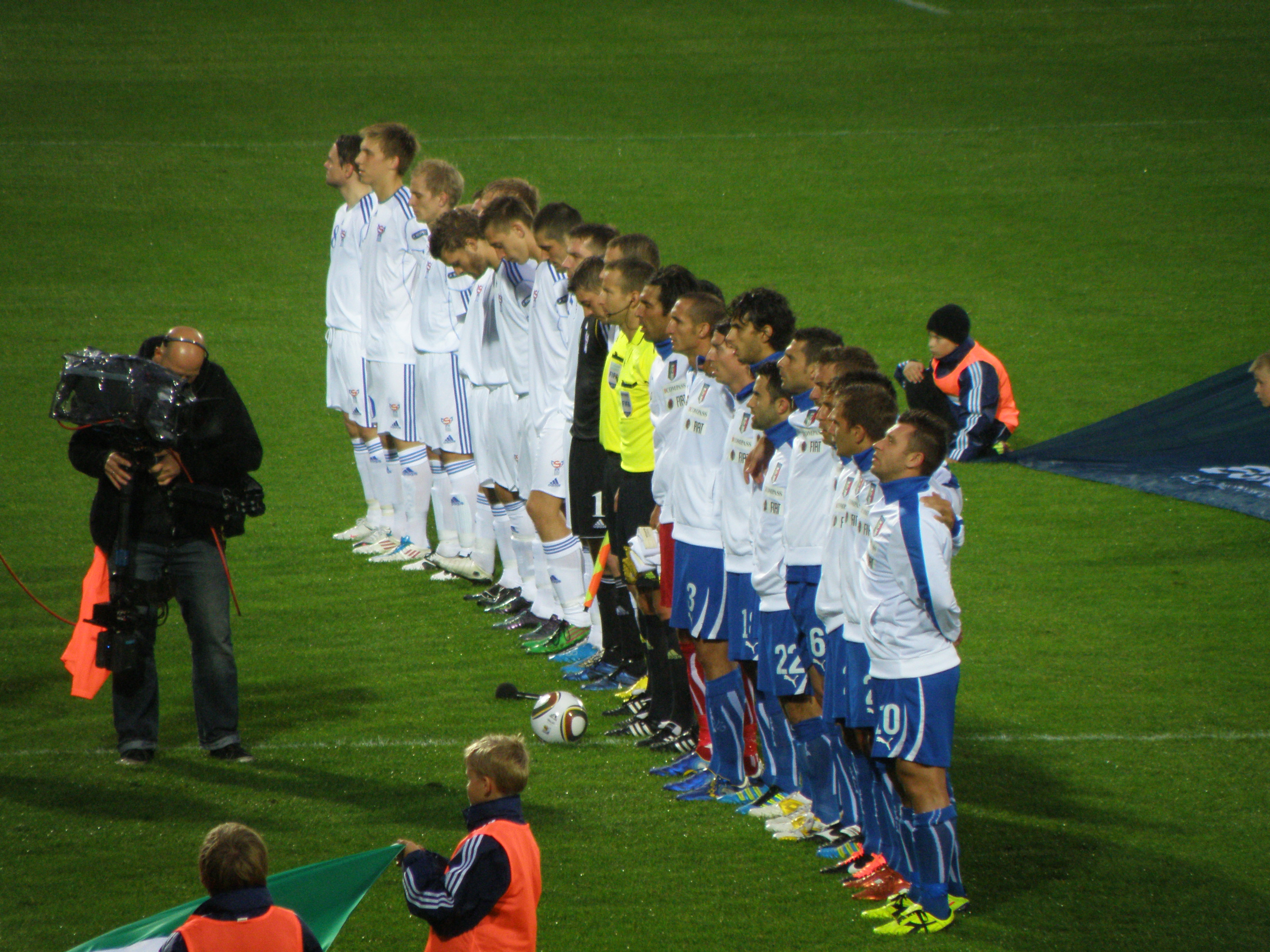 Just before the UEFA EURO 2012 match between Faroe Islands and Italy on Tórsvøllur in Tórshavn, Faroe Islands. Italy won the match 1-0, Antonio Cassano scored the goal after 11 minutes. The match was played on 2 September 2011. Føroyskt: Føroyar - Italia á Tórsvølli í Havn 2. september 2011. Italia vann dystin 0-1 við málið sum Antonio Cassano skeyt í 11. minutti. Dysturin var ein UEFA EURO 2012 dystur. Hetta var fyrsti landsdysturin ið var spældur á Tórsvølli eftir at 4 stórar ljósmastrar vóru settar upp.